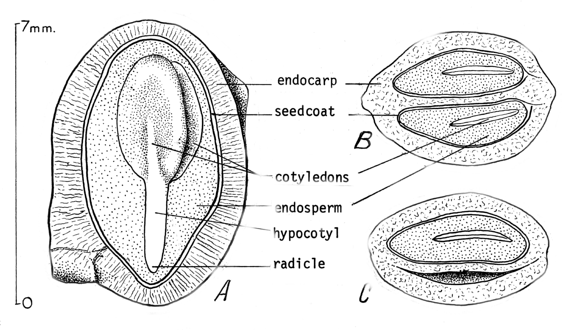 section through seed of Cornus sericea